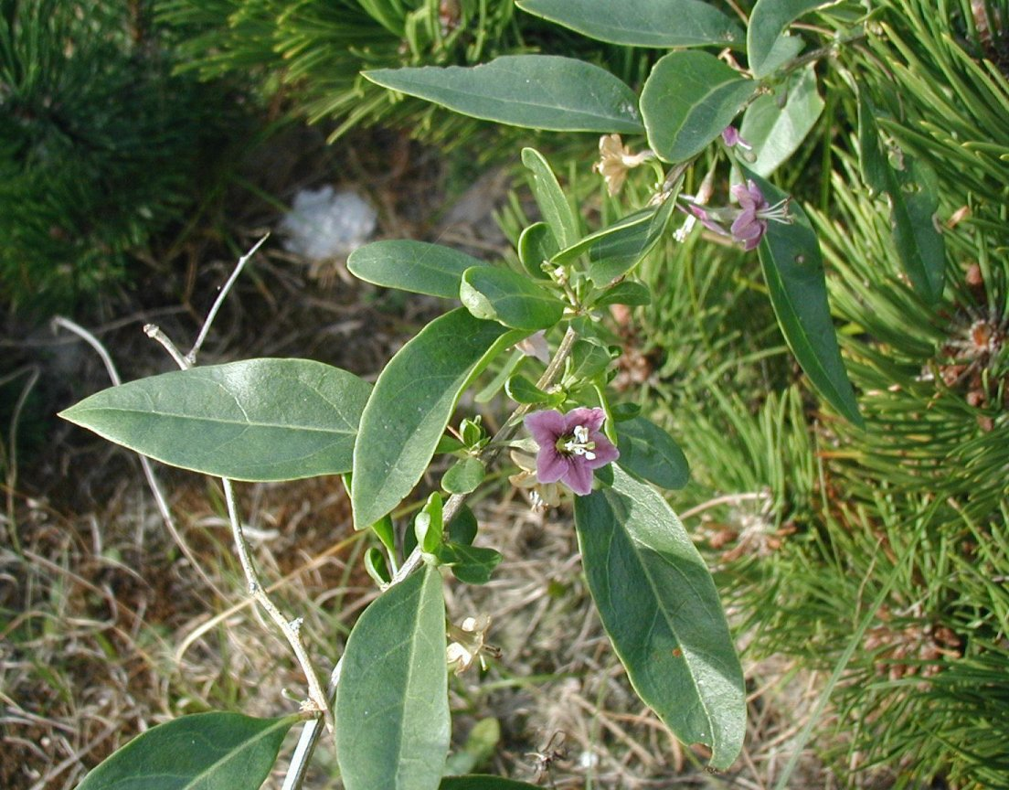 Lycium barbarum, The east coast of Jutland, Denmark. This is the flower of Lycium barbarum.